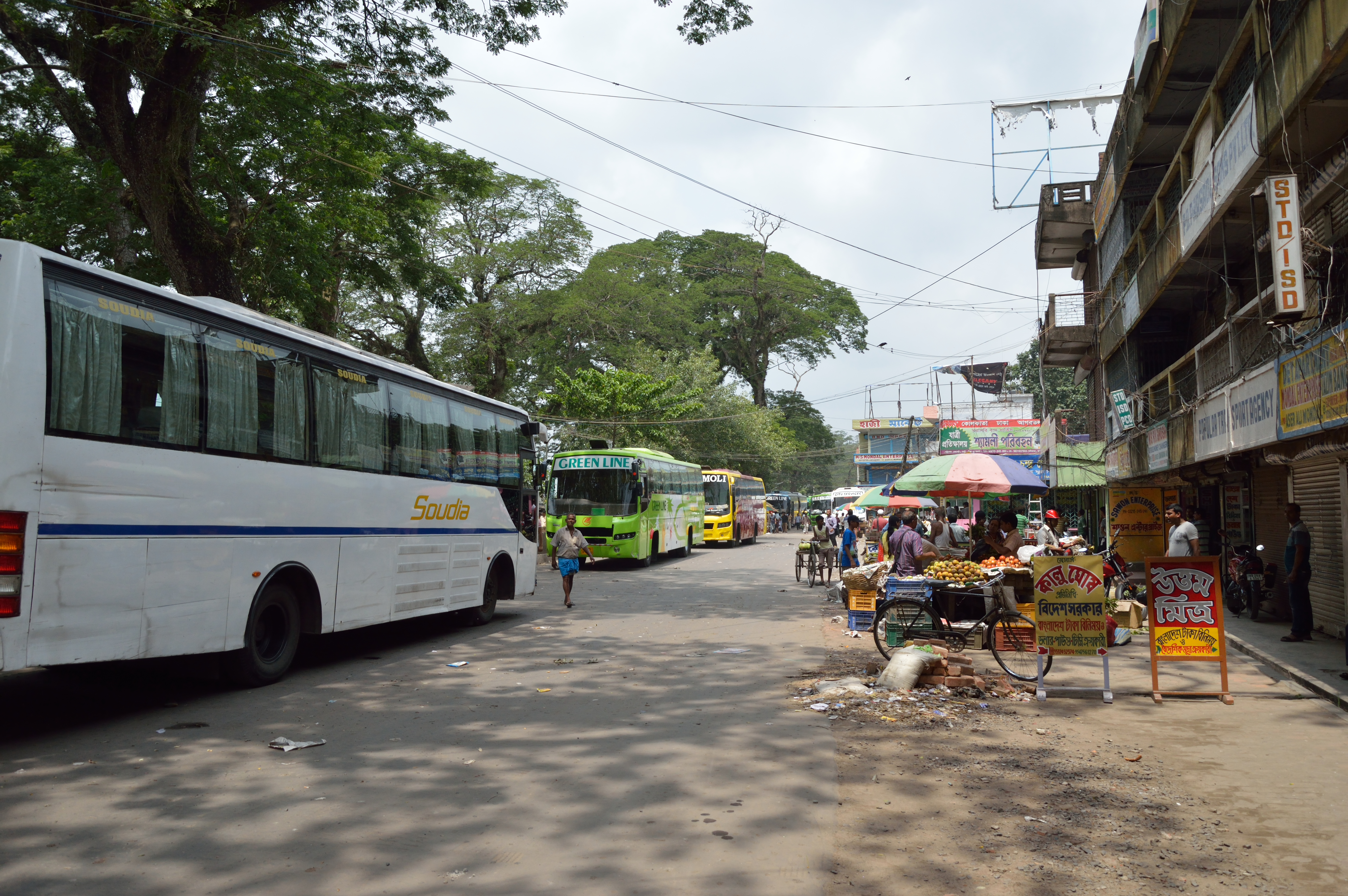 Photographed in West Bengal, India.